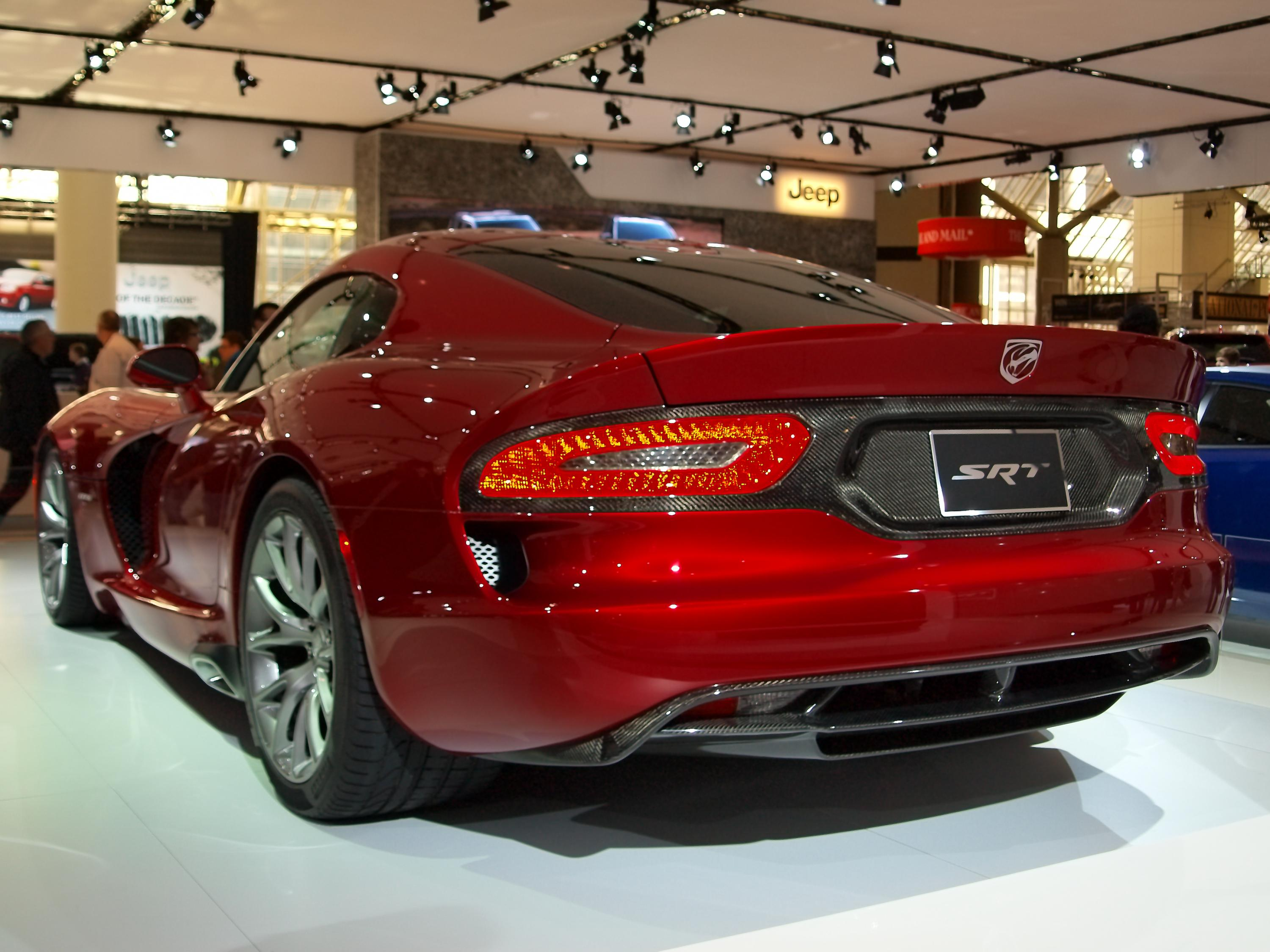 What a beautiful car! What are your thoughts? Yay or Nay?